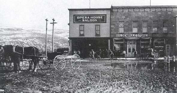 A store founded by James Cash Penney before the renaming and incorporation of JCPenney Inc